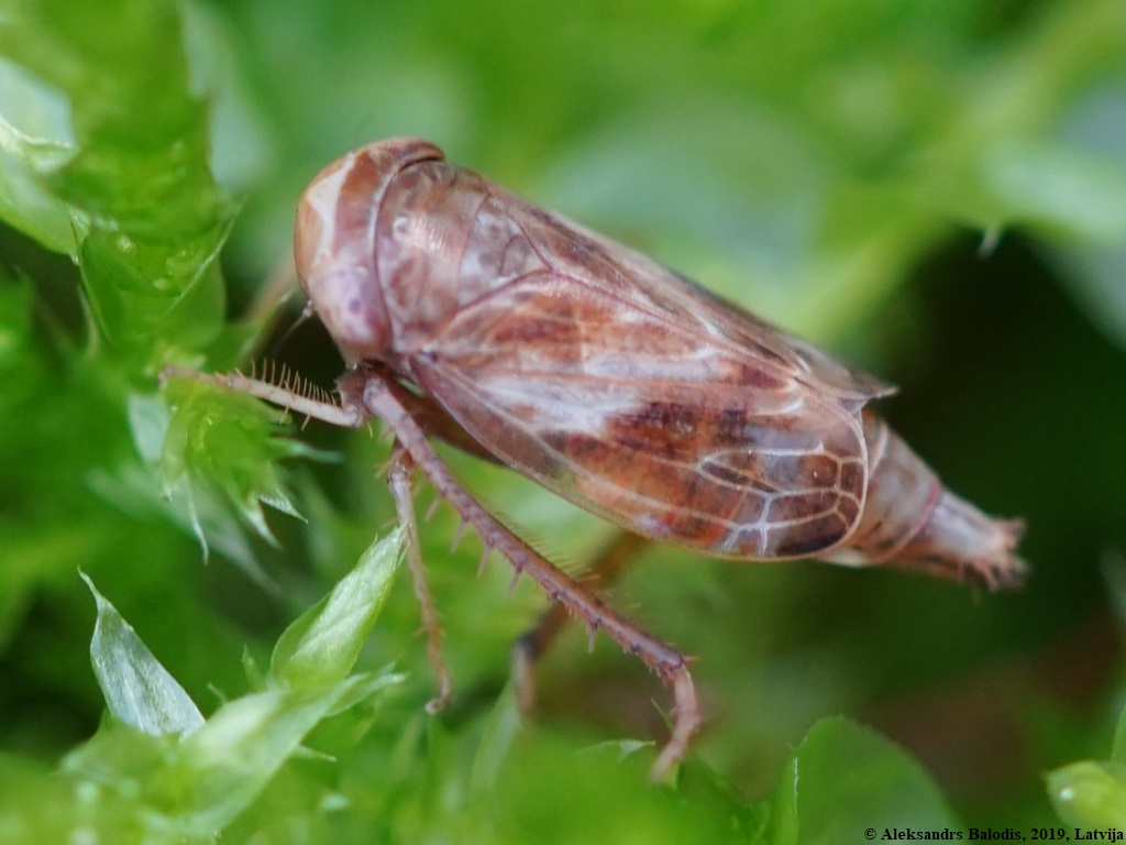 Athysanus quadrum